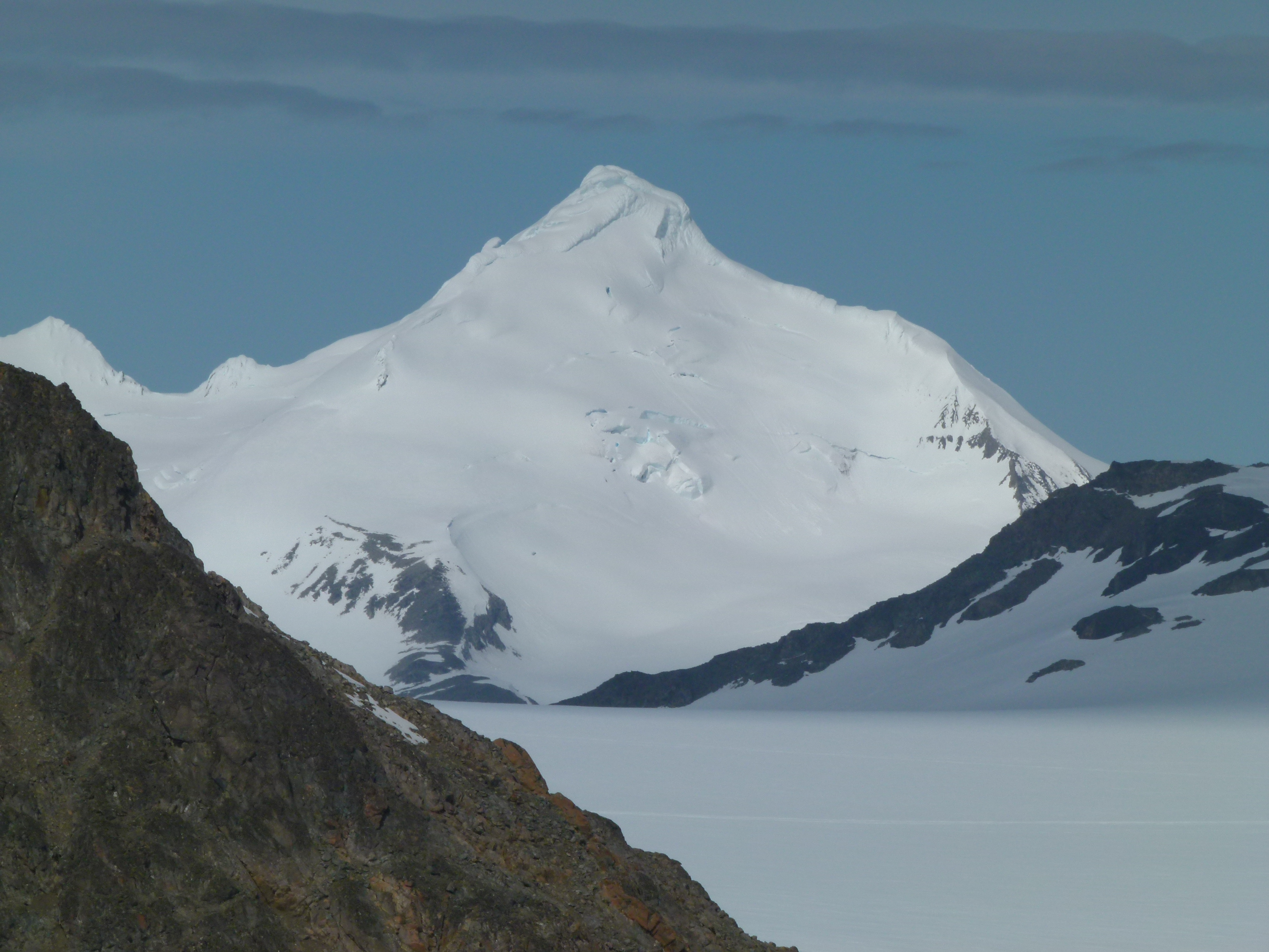 MacKay Peak on Rozhen Peninsula, Livingston Island in the South Shetland Islands, Antarctica.